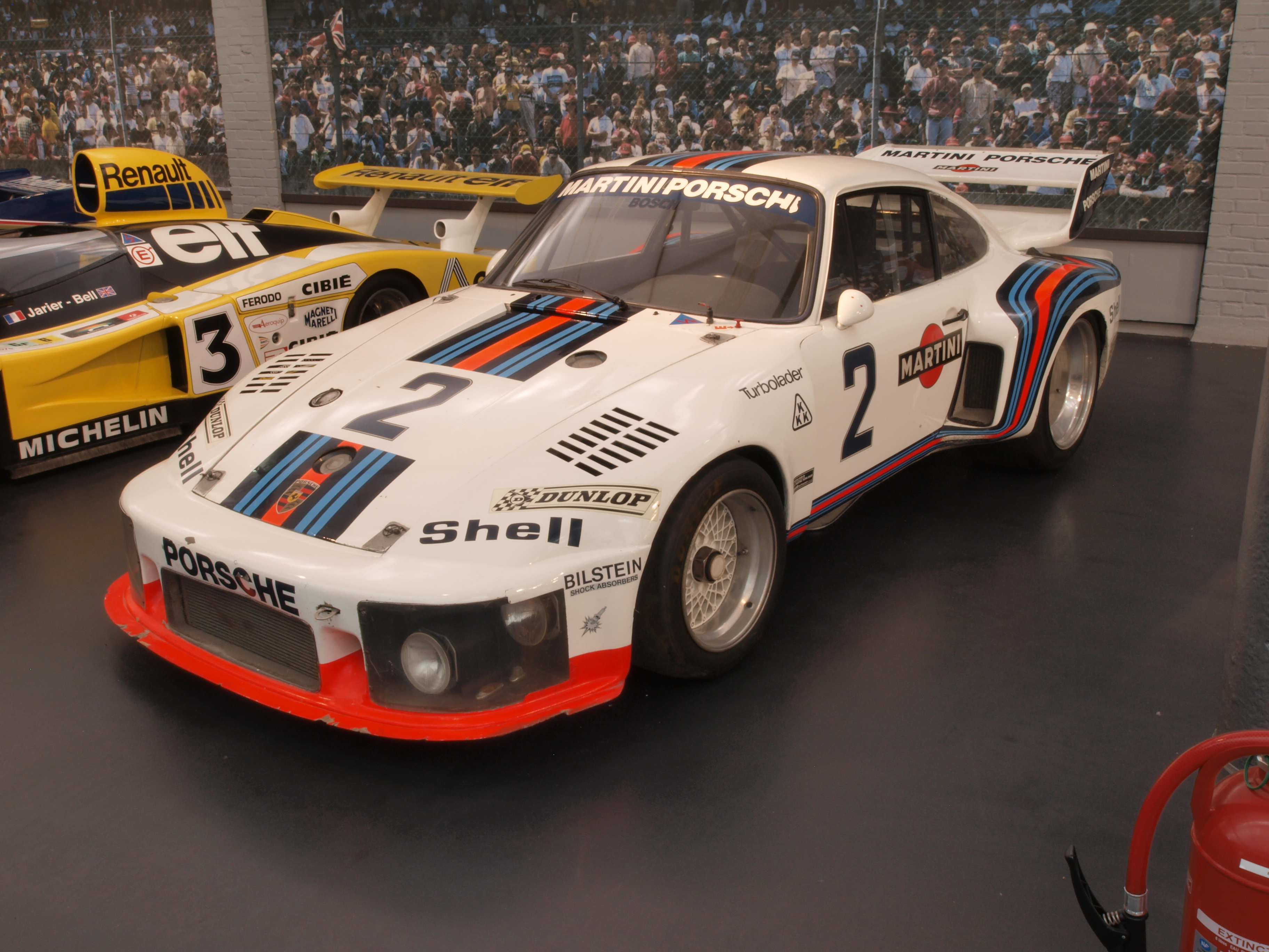 Porsche 935 Group 5 Special Production Car. Photographed at the Cité de l’Automobile, France. OLYMPUS DIGITAL CAMERA